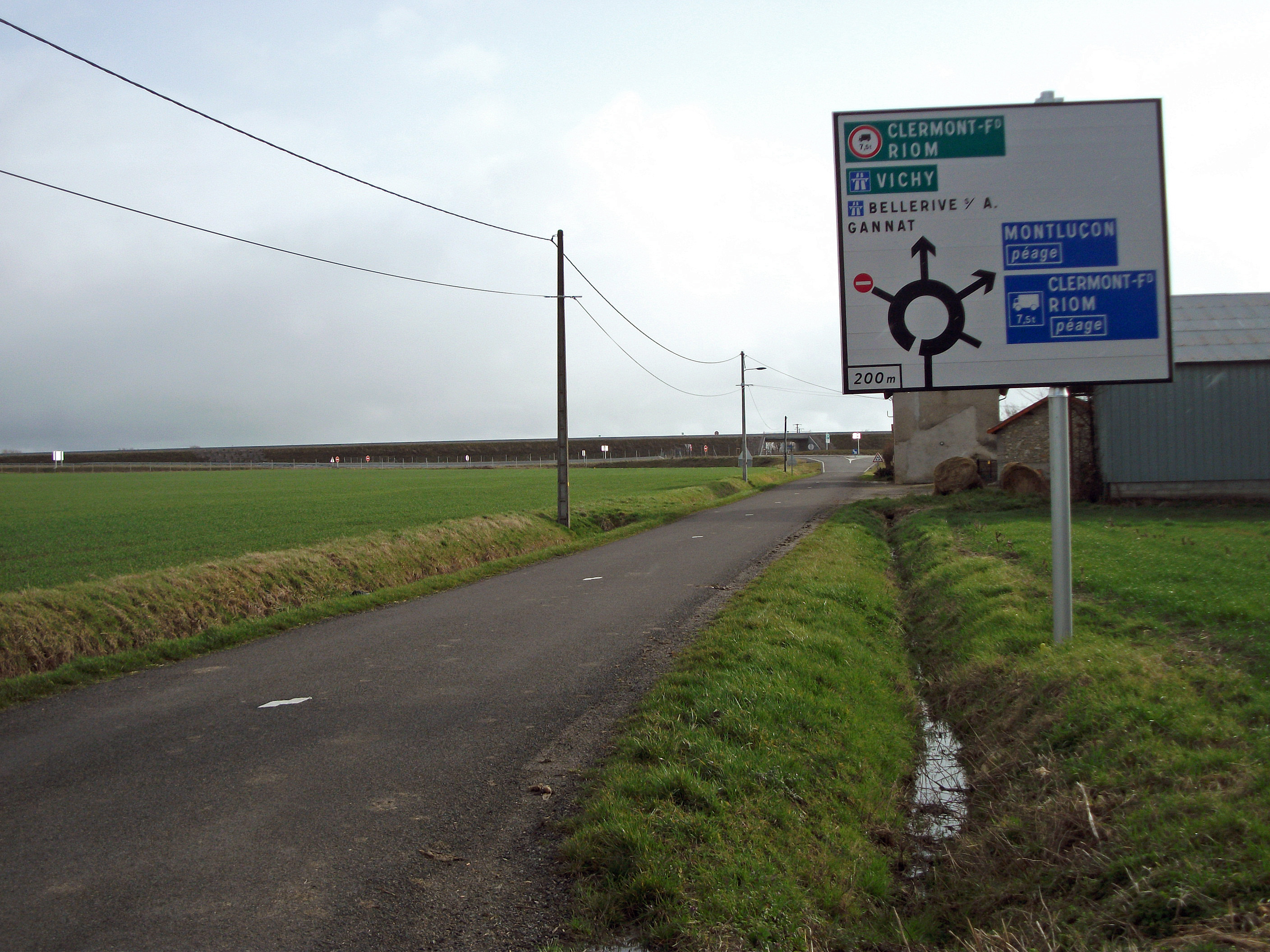 Departmental road 273, 200 m before roundabout of access to the A719 autoroute (entrance 15: Montluçon, Clermont-Ferrand and Riom), 2.7 km (1.6 mi) in the south-west of Monteignet-sur-l'Andelot [10200]